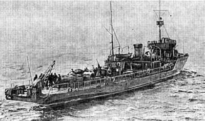 The Soviet project 53 base minesweeper T-1 Strela.